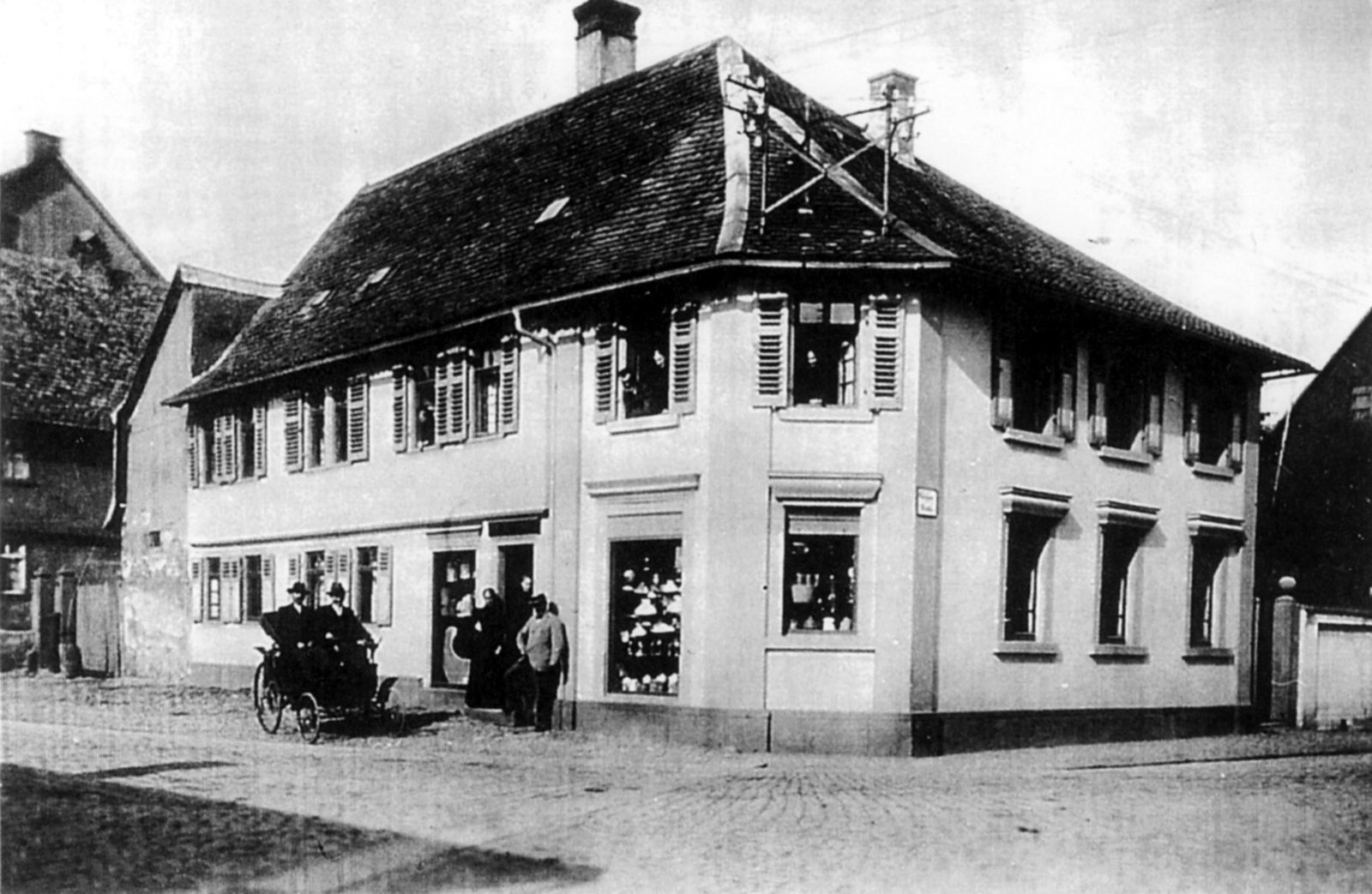 The first car in Gross-Gerau in 1896.